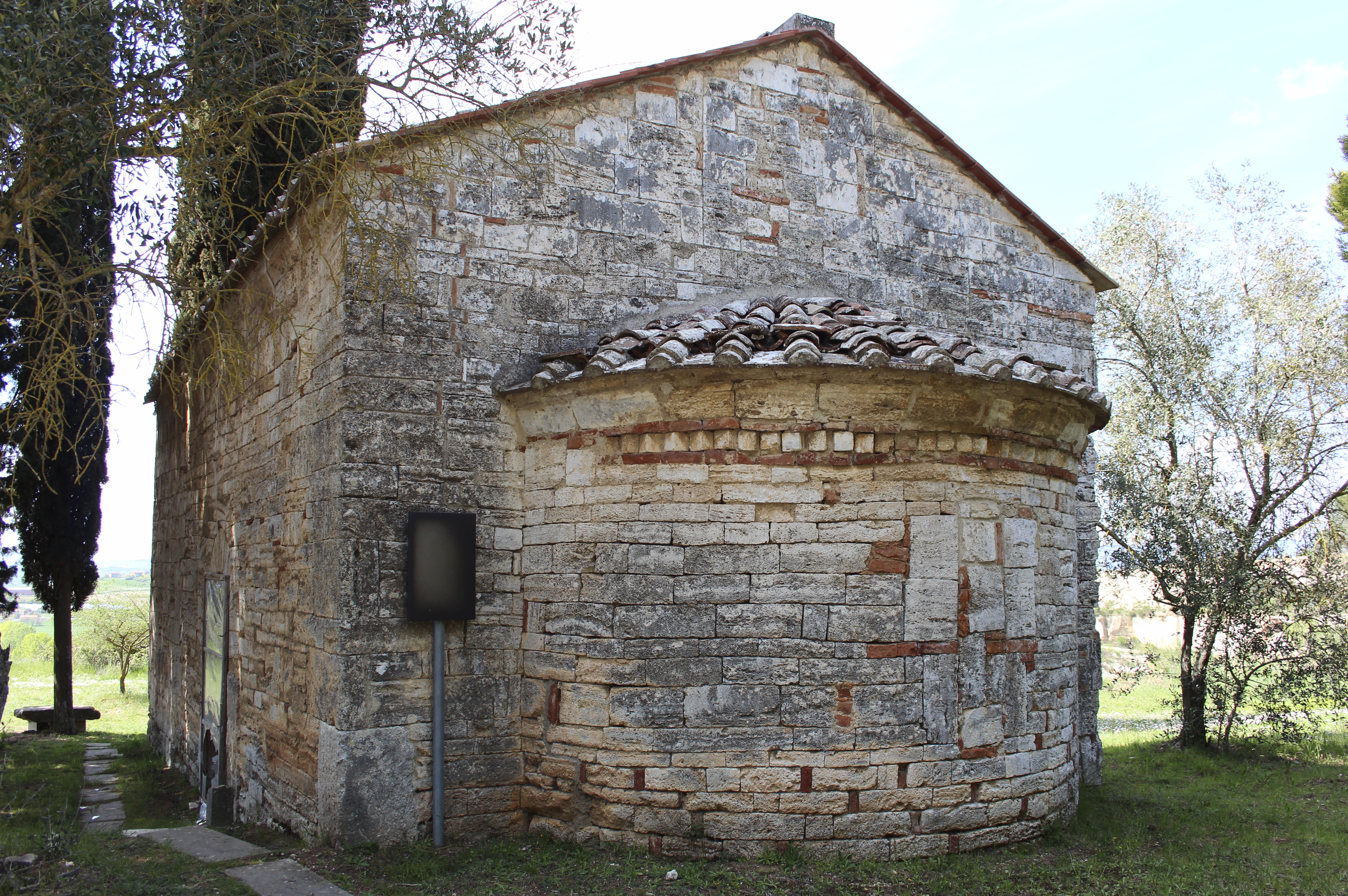 Church Sant'Andreino, outside of Serre di Rapolano, hamlet of Rapolano Terme, Province of Siena, Tuscany, Italy